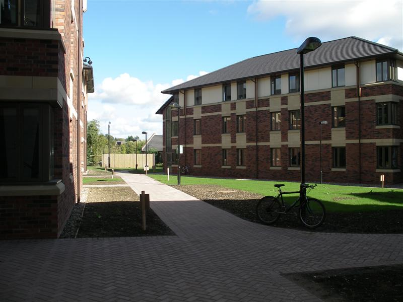 Stephenson College: accommodation blocks at the Howlands site. Until 2017 these formed part of Ustinov College